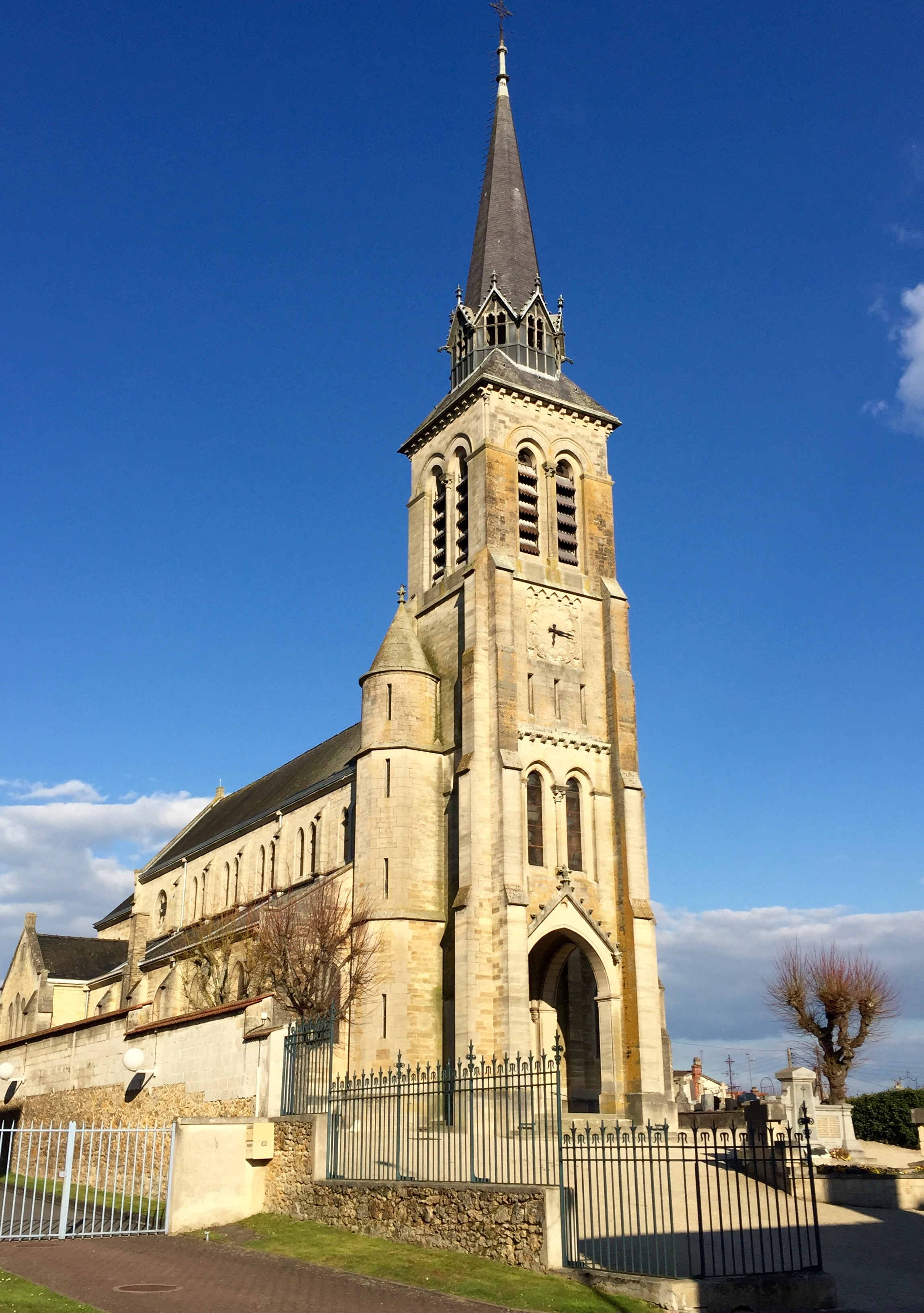 Church of Saint-Memmie, France.